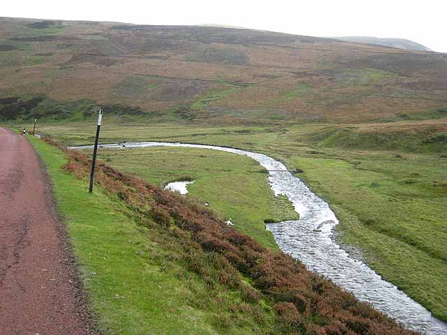 Shortcleuch Water Snow poles mark the line of the B7040. Leadburn Rig NS9216 lies ahead.